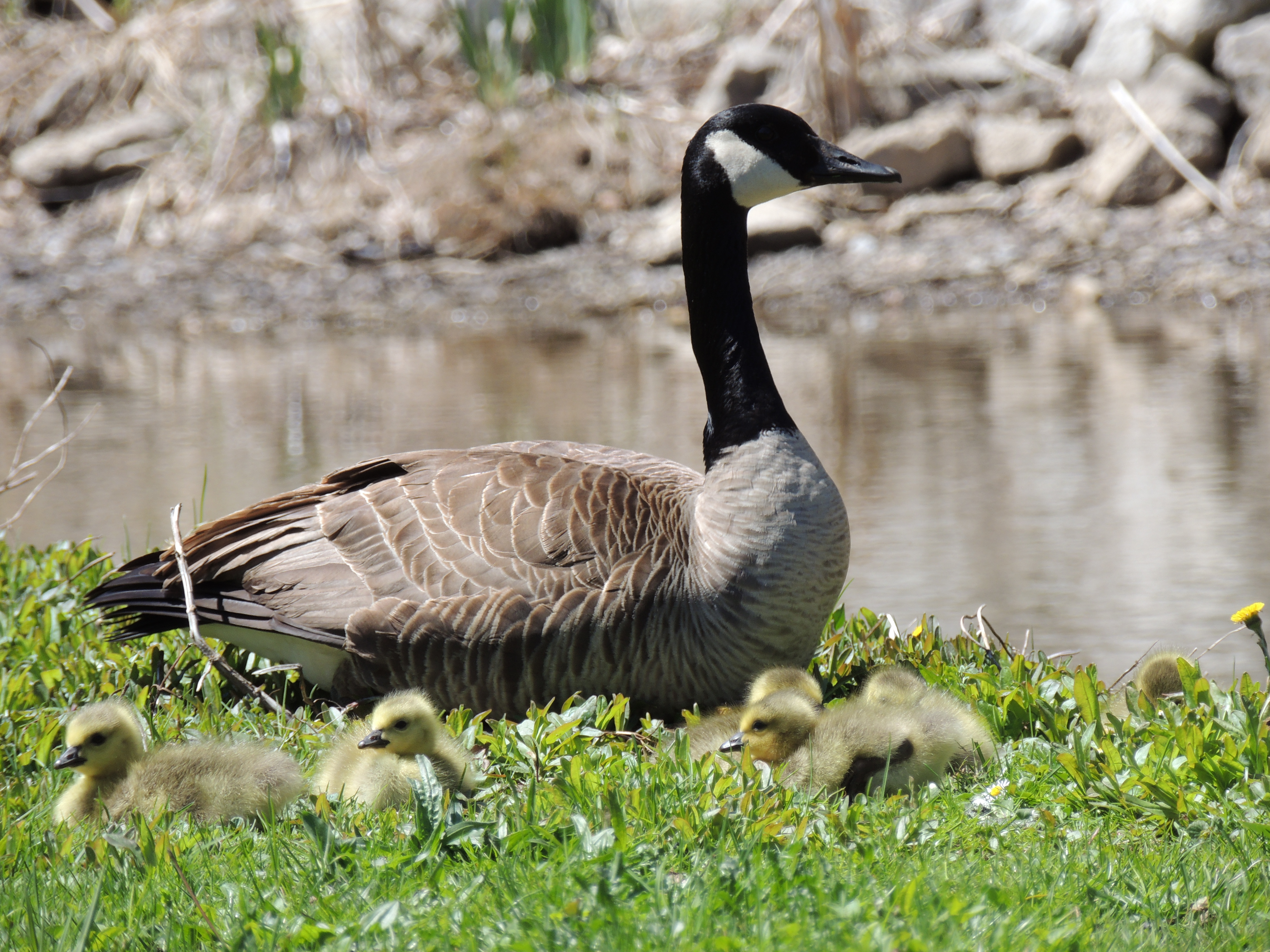 A walkabout on a beautiful spring day in Harrison Park, Owen Sound, Ontario, Canada. The closest I've been able to get to goslings, these were less than 3 metres away from where I was sitting.